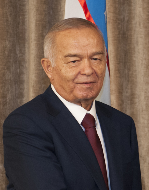 2013.gada 17.oktobris. Ministru prezidents Valdis Dombrovskis tiekas ar Uzbekistānas prezidentu Islamu Karimovu (Islam Abduganiyevich Karimov). Foto: Reinis Inkēns, Saeimas Kanceleja Izmantošanas noteikumi: saeima.lv/lv/autortiesibas